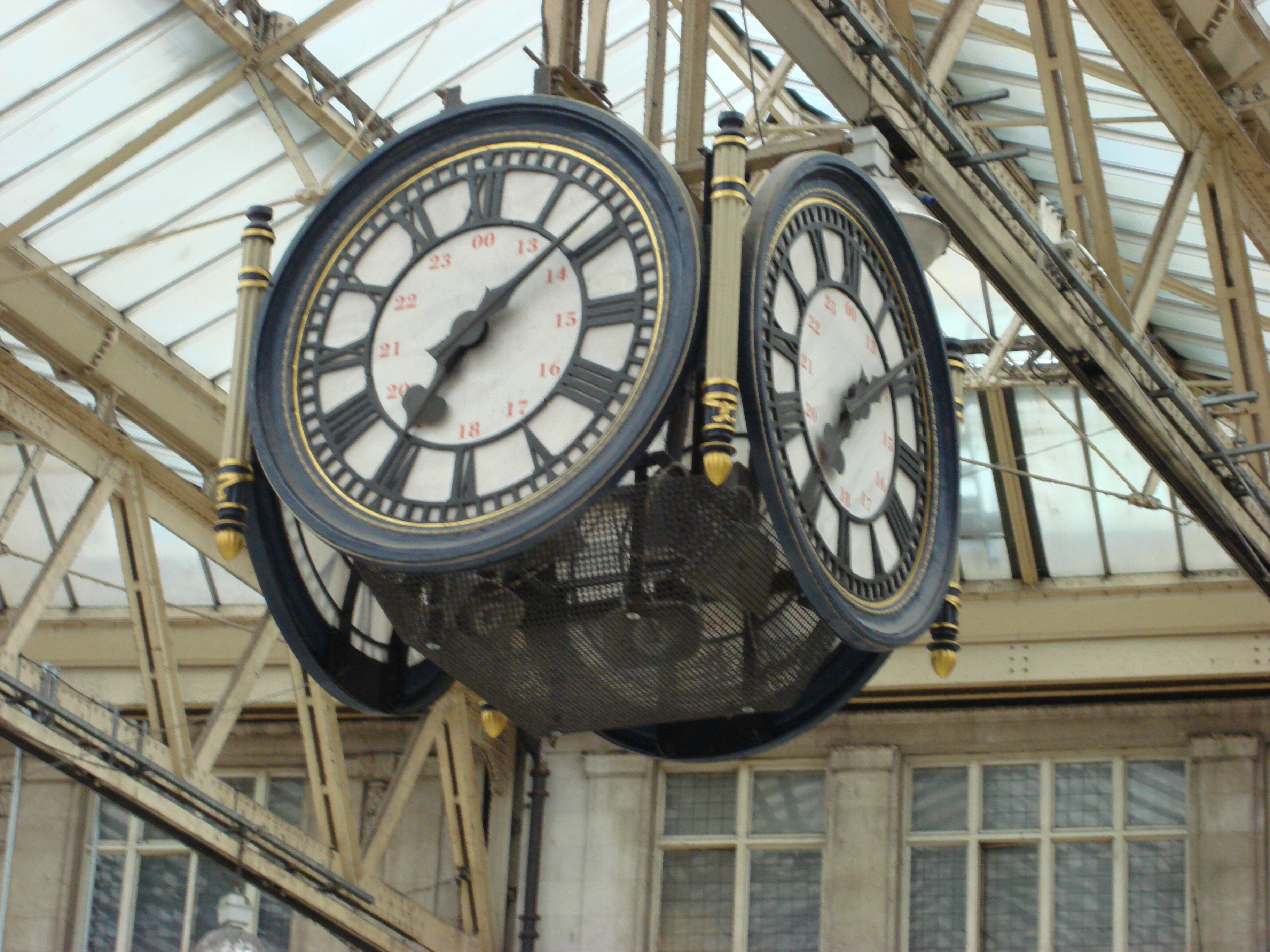 4 sided Clock above Waterloo Station concourse.